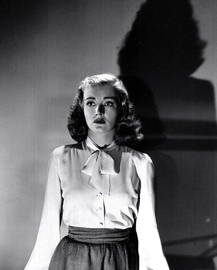 Nina Foch in Johnny O'Clock (1946)